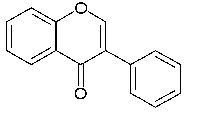 Structure of isoflavones